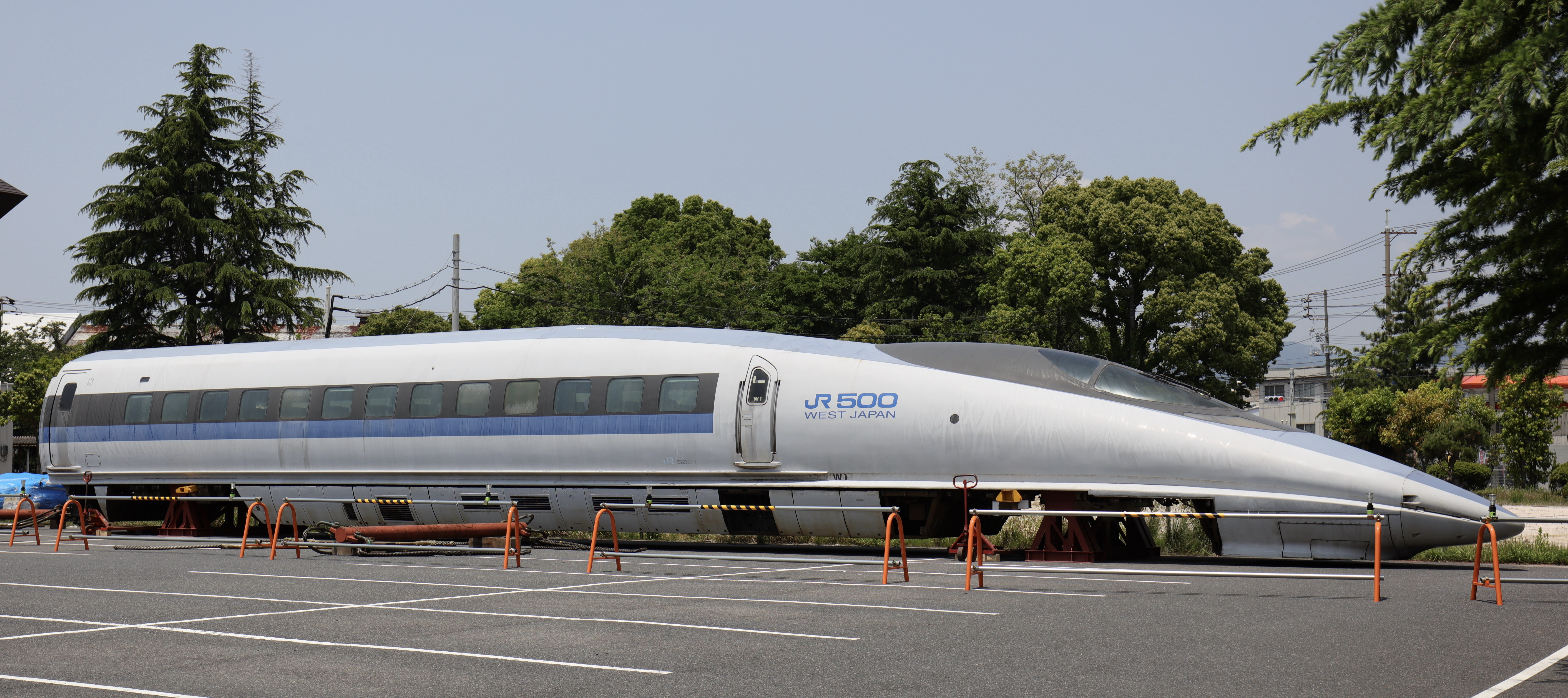 Shinkansen Series 500 car 522-1 at Hitachi Kasado Works